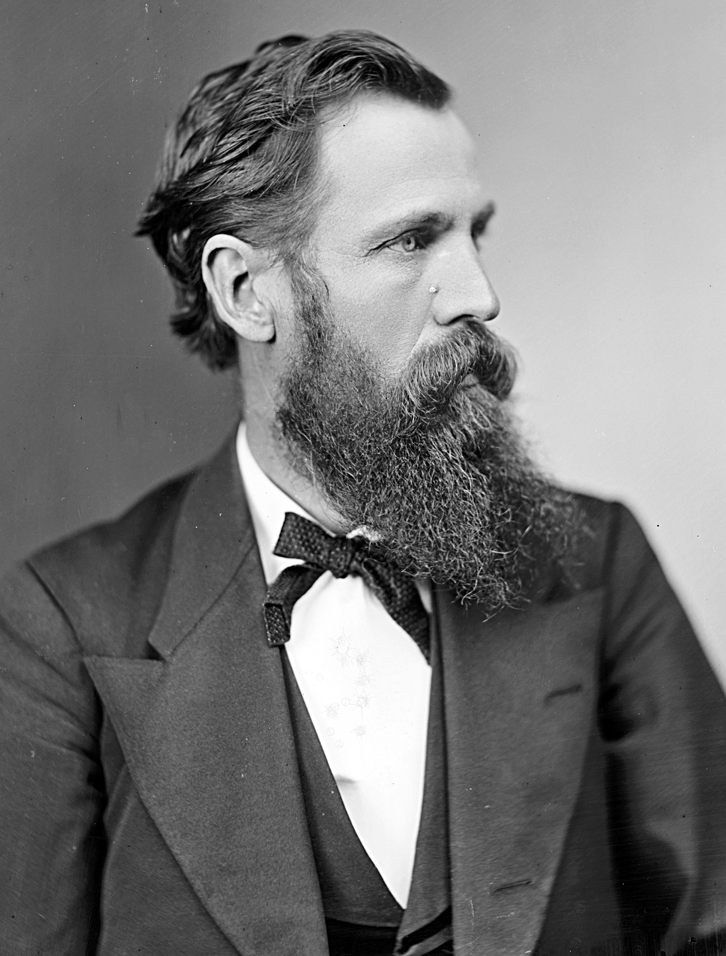 Jonas H. McGowan, US Representative from Michigan